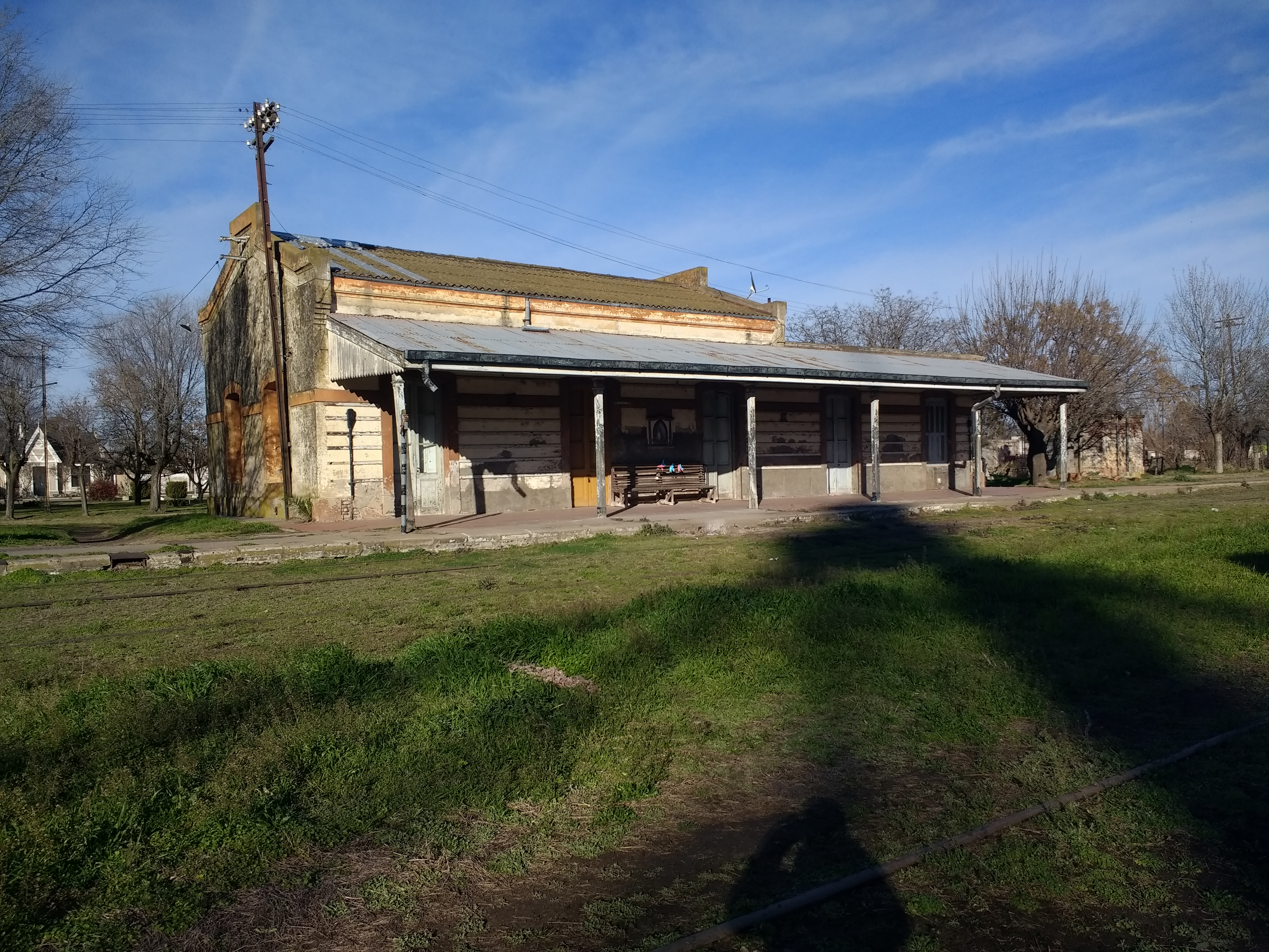 General view of the Juan José Paso train station